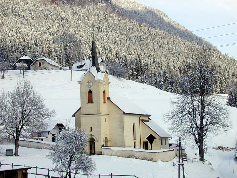 The parish church of Windisch Bleiberg